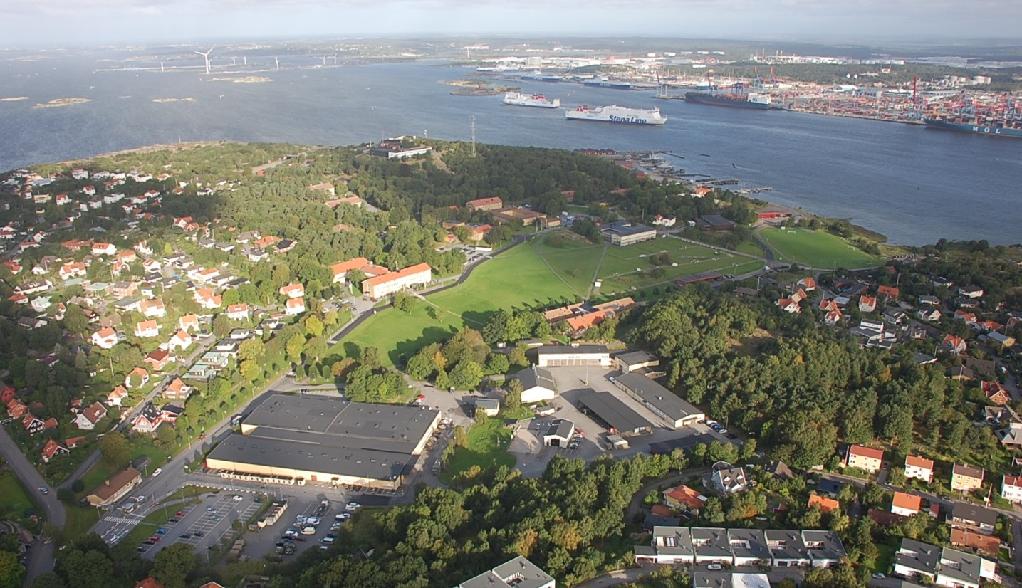 Aerial view over Gothenburg Garrison located at Käringberget, close to the inlet of Gothenburg harbor.